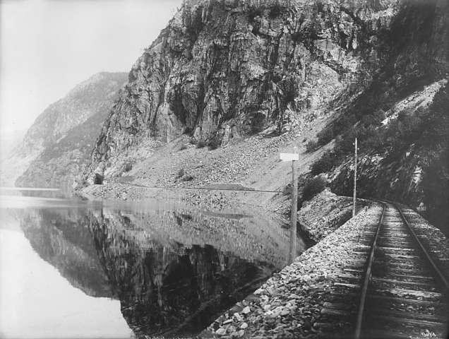 Flekkefjordbanen along Lundevatnet, Flekkefjord, Norway.